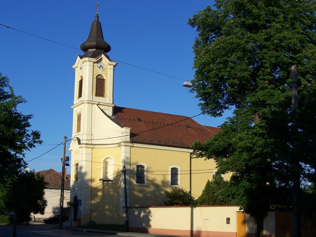 Catholic church of Rákoscsaba, Budapest (Hungary)